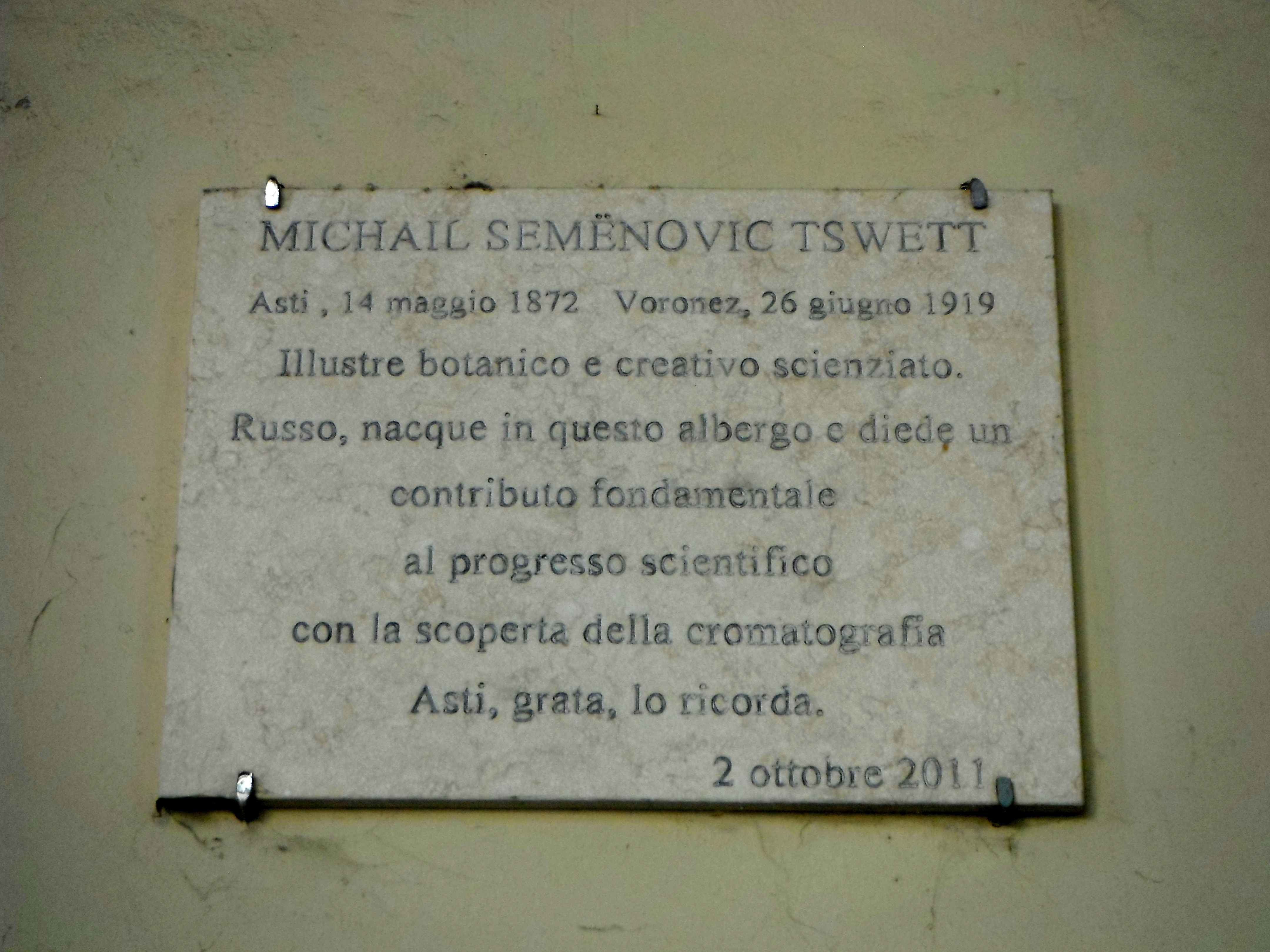 Here-was-born plaque of Russian botanist Mikhail Tsvet in Asti, Italy.